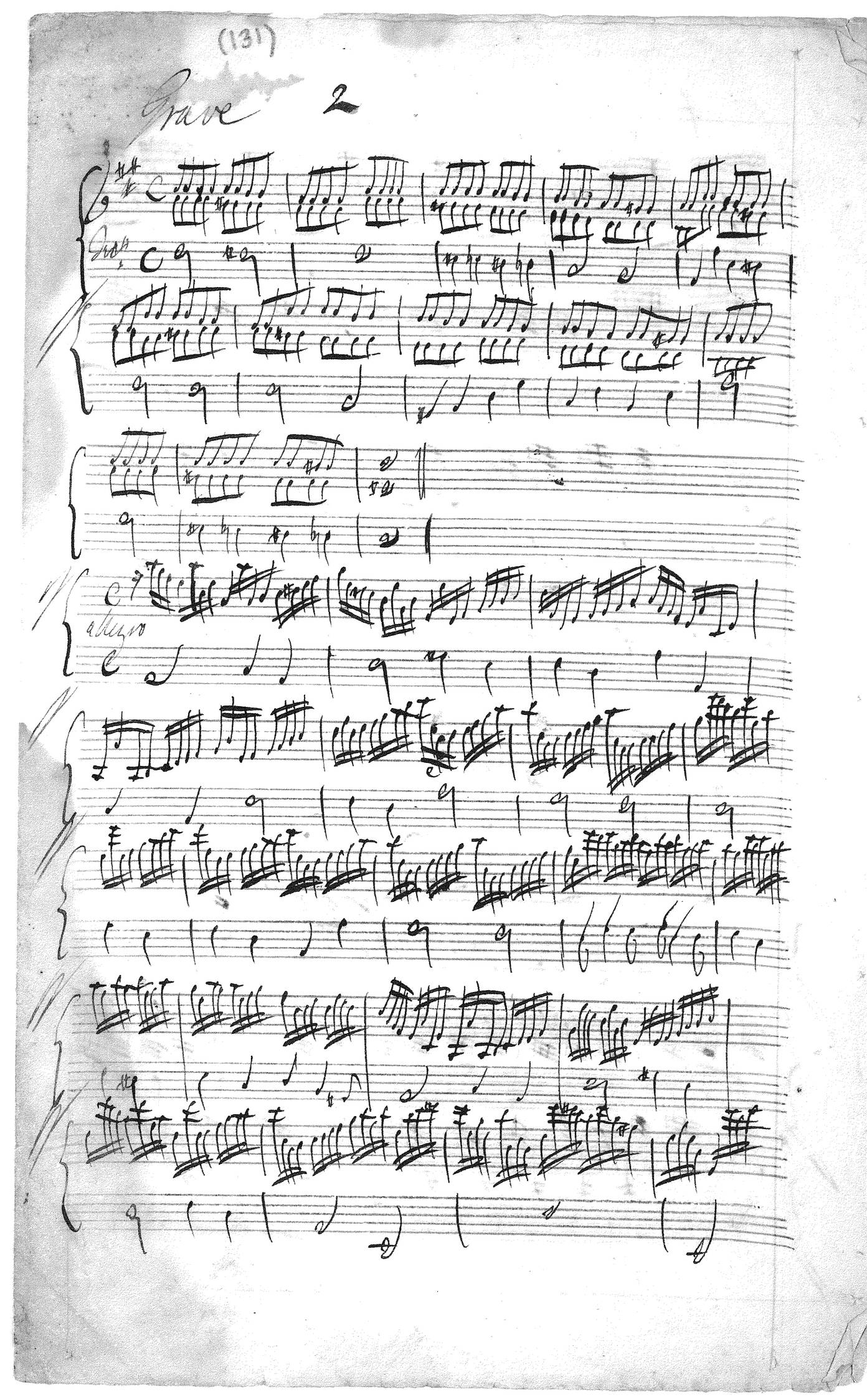 Fragment of a violin sonata (La Guerra) by Johann Paul von Westhoff, in Johann Helmich Romans hand, preserved in the Roman Collection at The Music and Theatre Library, Sweden.